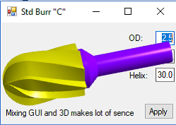 3D model of a burr displayed on a .NET Form using KernelCAD control with transparent background enabled